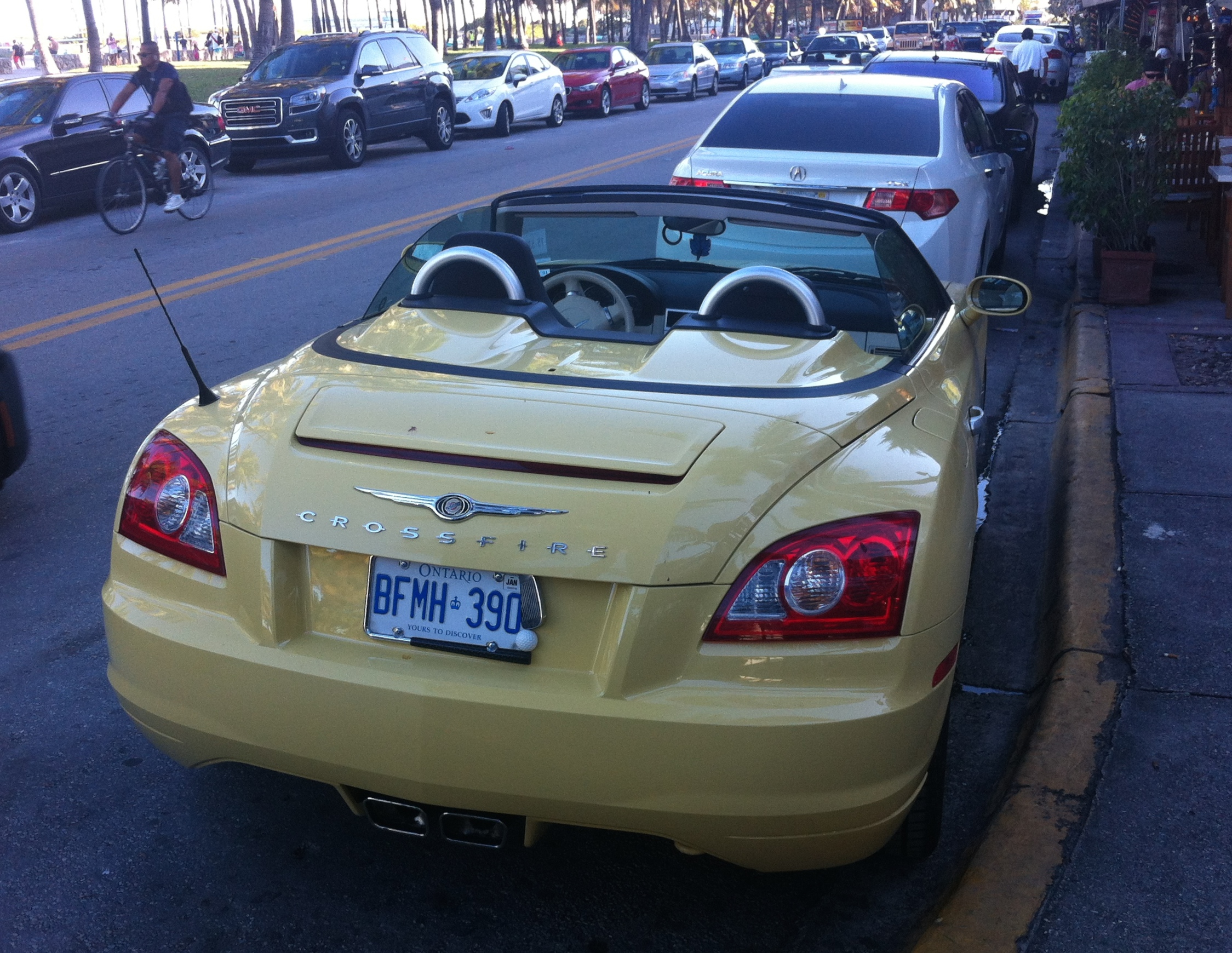 Chrysler Crossfire roadster, rear view of this two-seat roadster finished in yellow with open top. Picture taken in South Beach, Miami, Florida, U.S.A.